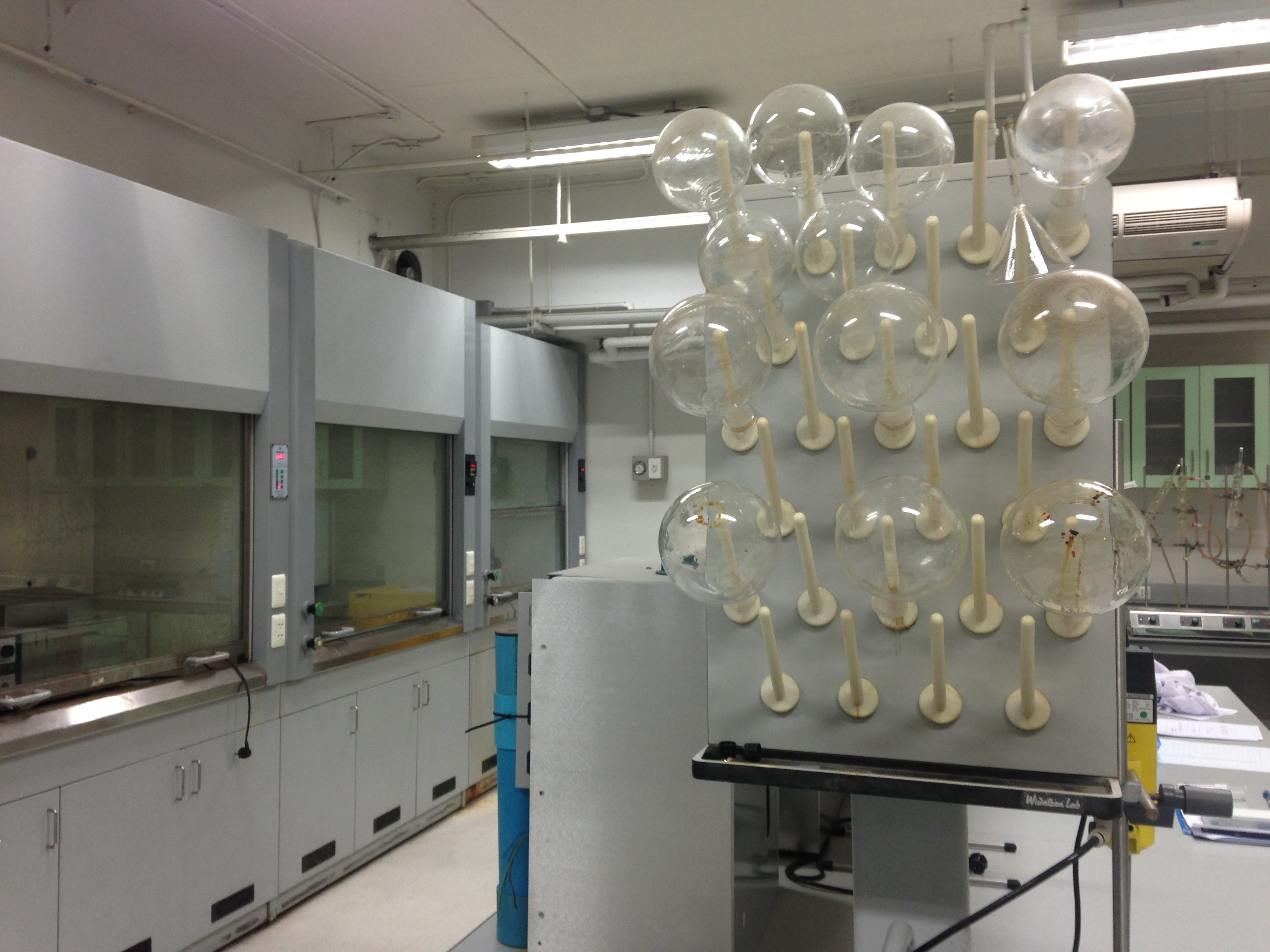 Lab Drying Rack can be used to drain even the big-sized flasks in the laboratory